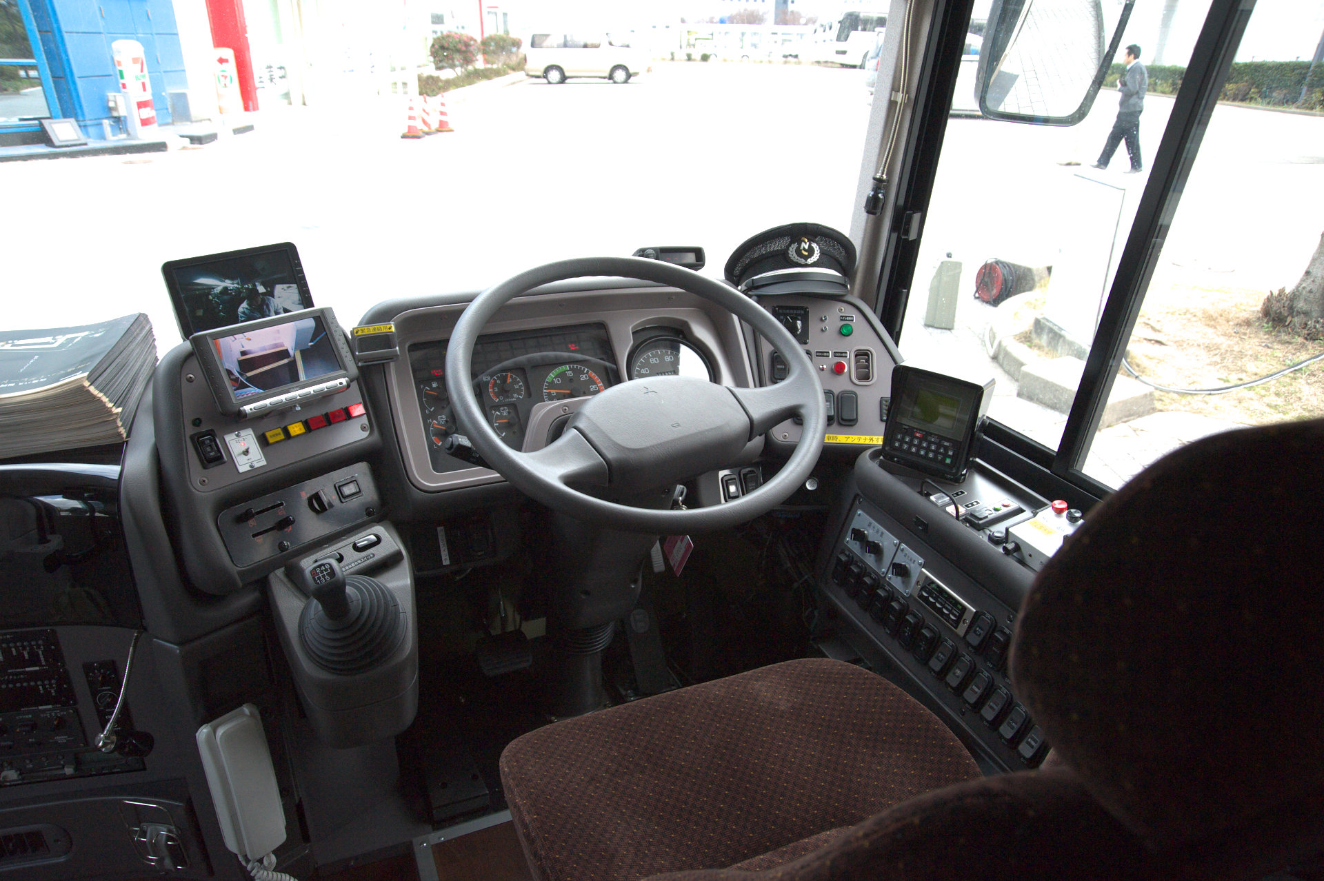 Cockpit of Mitsubishi Fuso Truck & Bus "Aero King"(BKG-MU66JS)